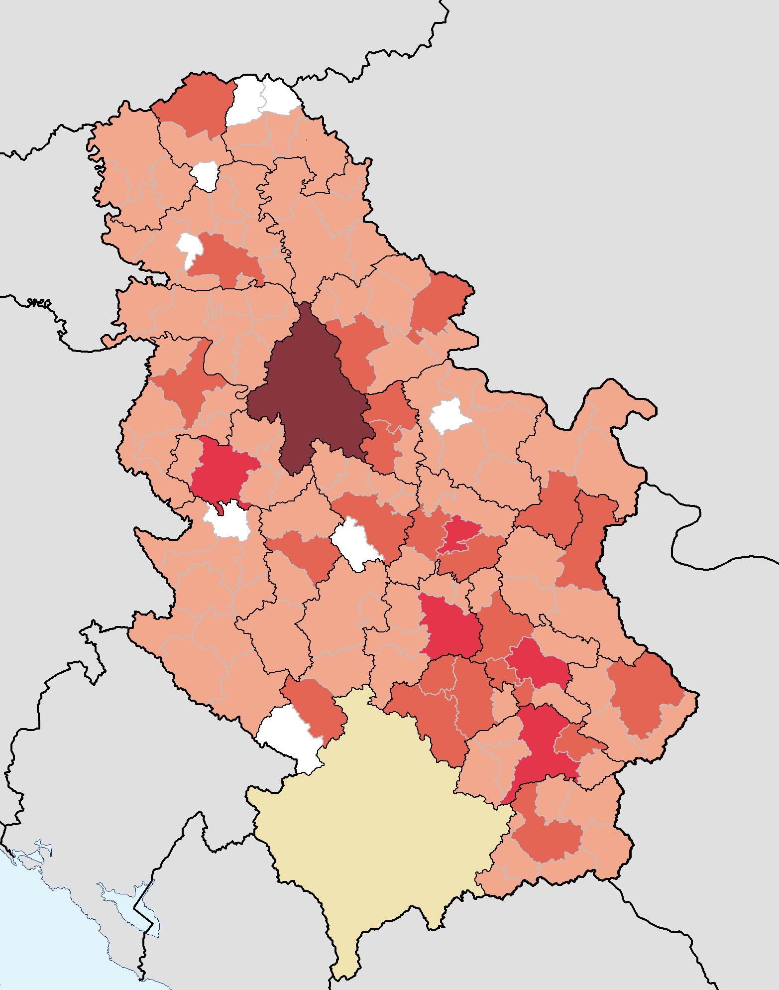 Map of the outbreak in Serbia